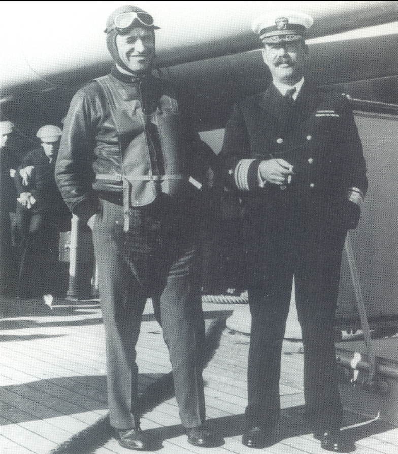 Humorist Will Rogers (left) and Rear Admiral Montgomery M. Taylor. U.S. Naval Historical Center photo # NH 43955.